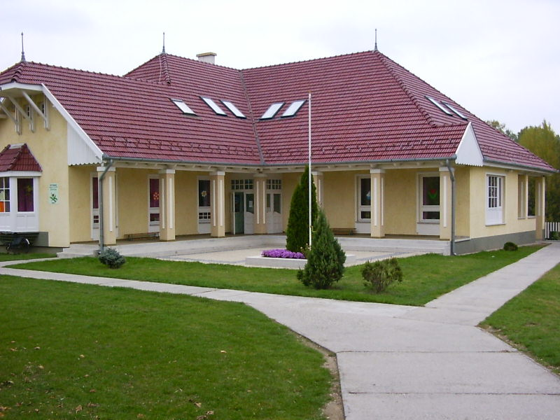 Kindergarten in Börcs